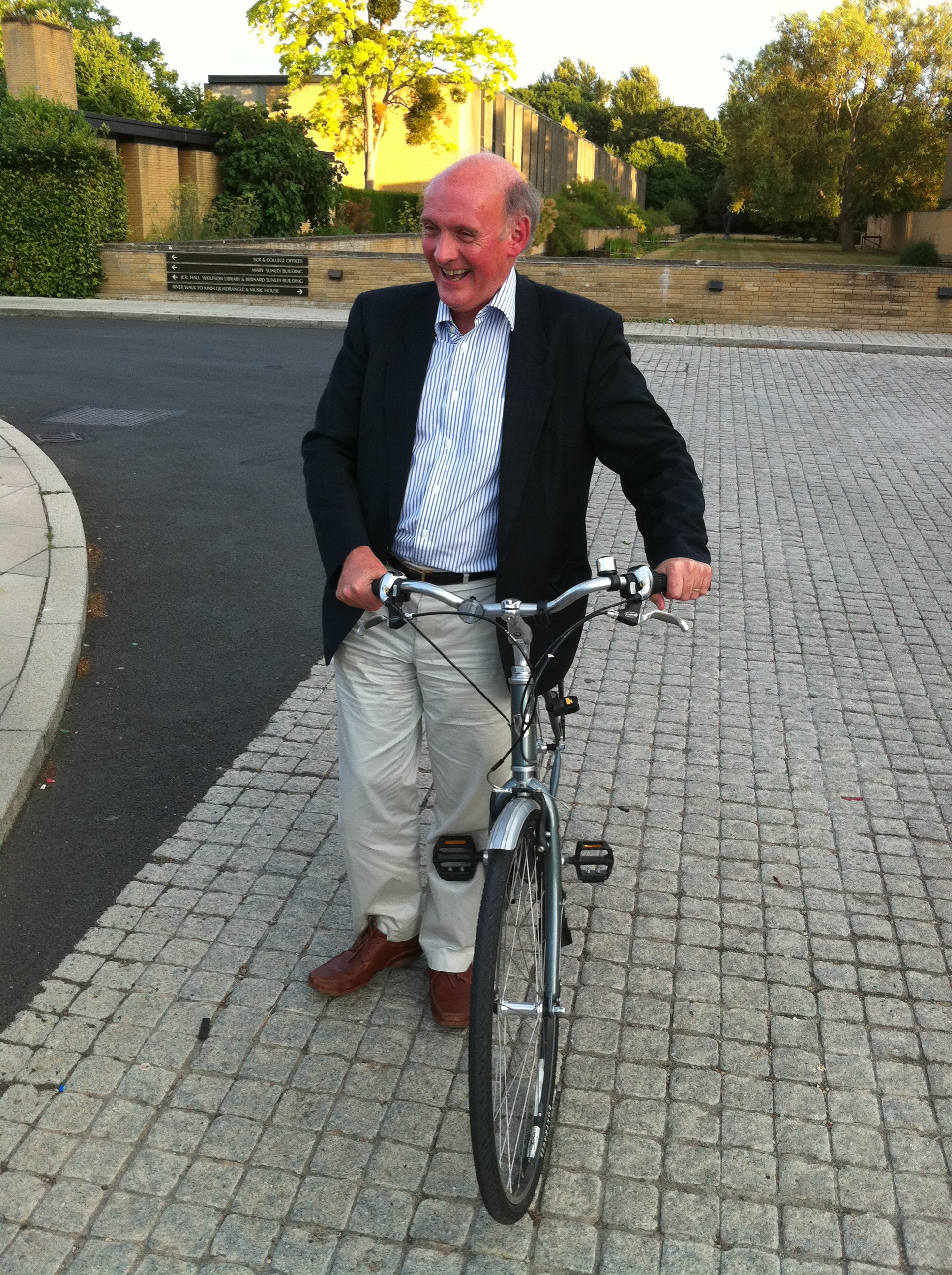 Richard Carwardine with his bicycle on the campus of St. Catherine's College, Oxford University, during a Gilder Lehrman Teacher Seminar